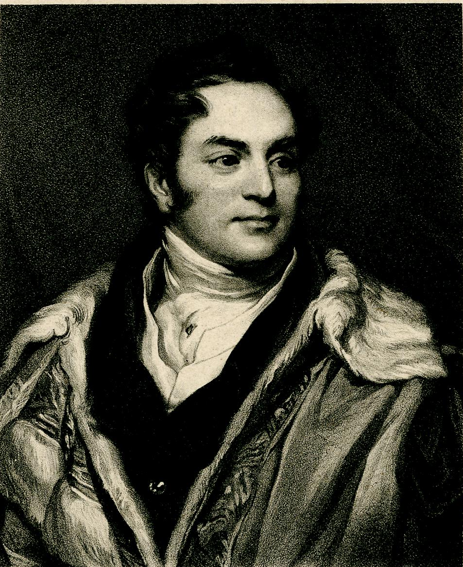 Portrait of Archibald Acheson, 2nd Earl of Gosford, half-length, standing to left, with head turned to look to right, wearing peer's fur-trimmed robes over dark coat, light waistcoat and neckerchief; curtain behind; after Phillips. 1828 Lithograph on chine collé